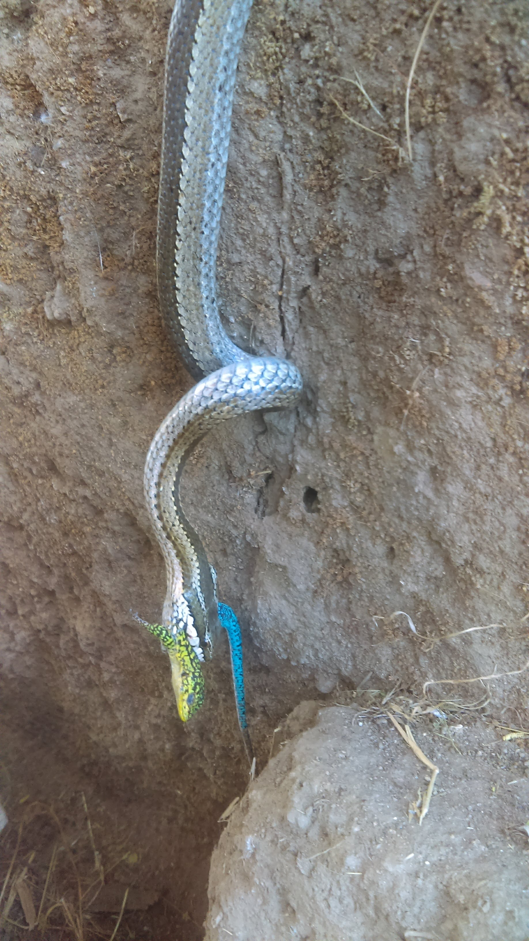 A philodryas chamissonis snake eaiting a liolaemus tenuis lizard in Cerro Mauco, Curacaví, Chile.